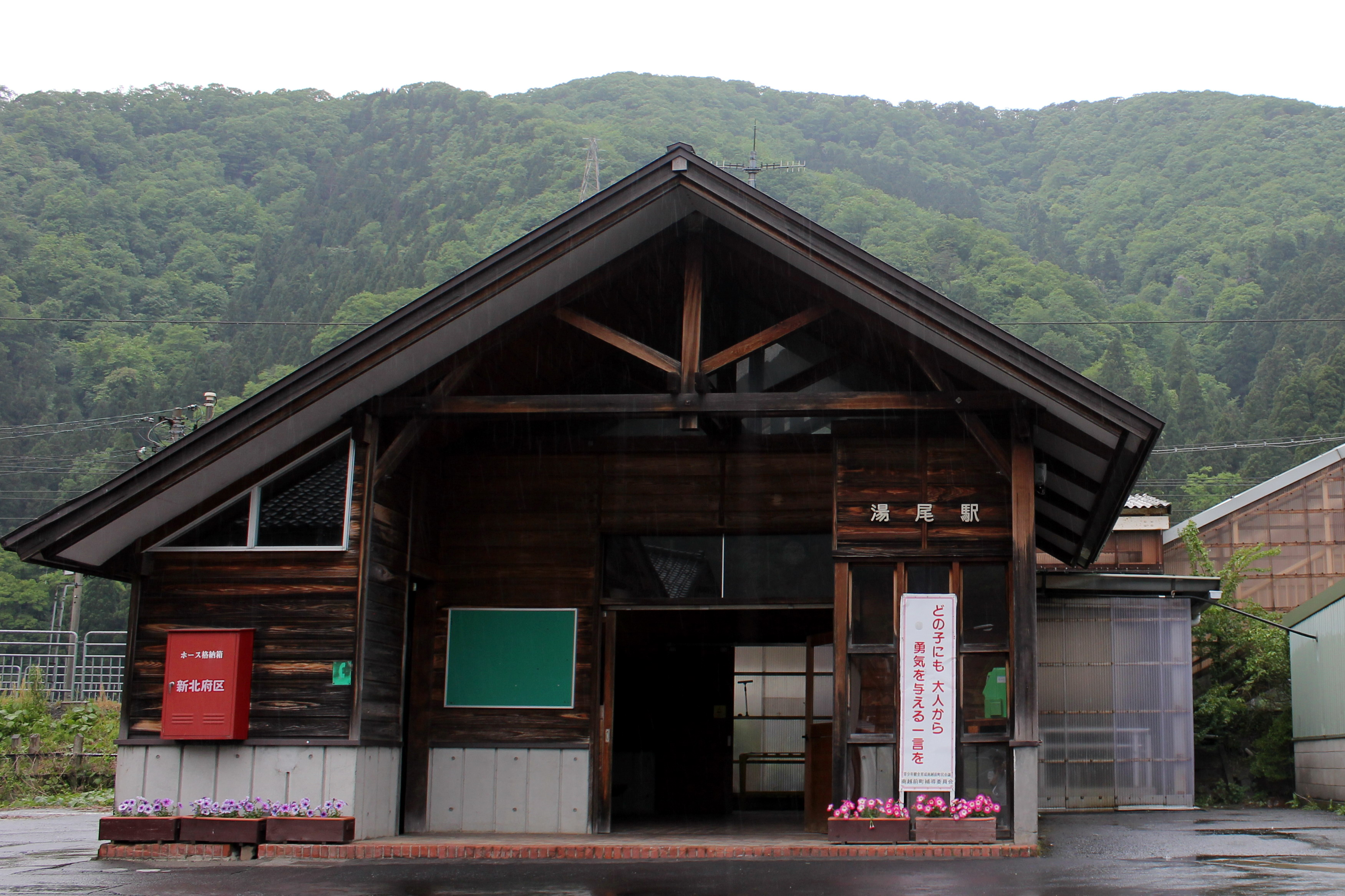 JR West Hokuriku Main Line Yunoo Station